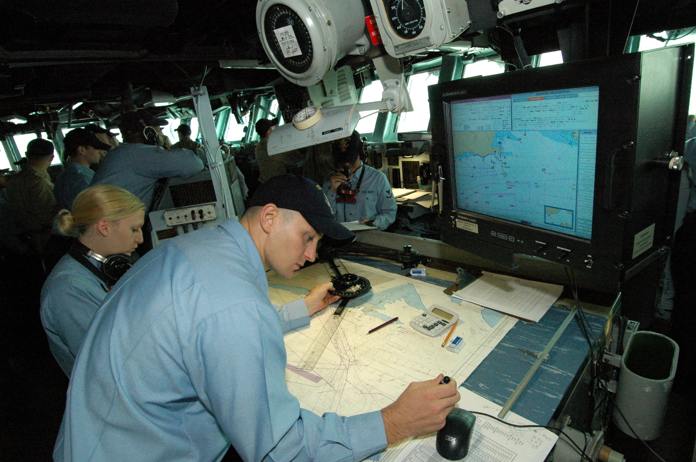 Indian Ocean (Oct. 12, 2006) - Quartermasters assigned to USS Boxer (LHD 4) plot the ship’s course as it pulls into Changi Naval Base, Singapore for a port visit. Boxer is the flagship of Boxer Expeditionary Strike Group operating from San Diego as the Navy's only forward-deployed amphibious task force. U.S. Navy photo by Mass Communication Specialist Seaman James Seward (RELEASED)